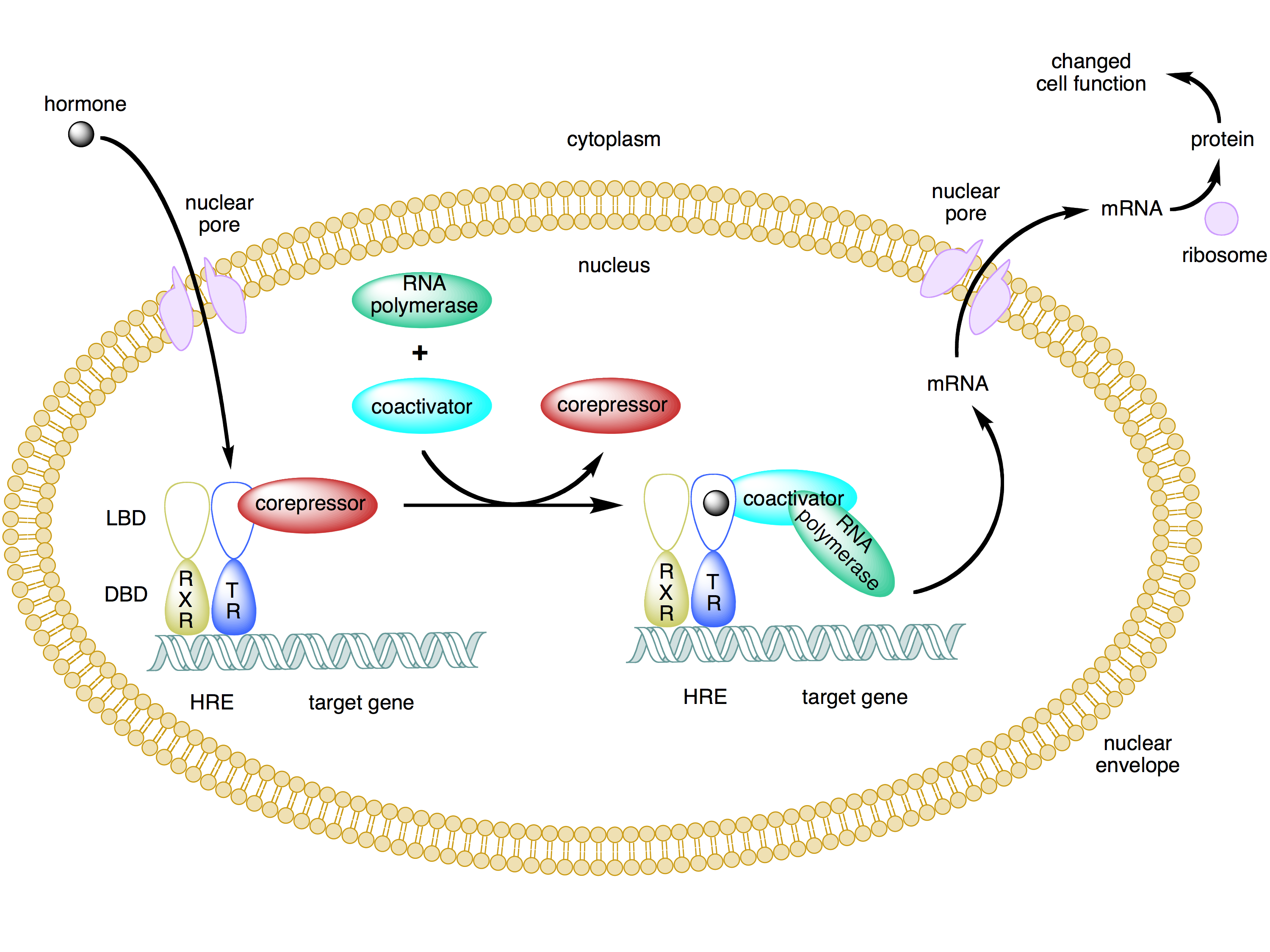 Created myself using CambridgeSoft BioDraw. Mechanism nuclear receptor action. This figure depicts the mechanism of a class II nuclear receptor (NR) which, regardless of ligand binding status is located in the nucleus bound to DNA. For the purpose of illustration, the nuclear receptor shown here is the thyroid hormone receptor (TR) heterodimerized to the RXR. In the absence of ligand, the TR is bound to corepressor protein. Ligand binding to TR causes a dissociation of corepressor and recruitment of coactivator protein which in turn recruit additional proteins such as RNA polymerase that are responsible for transcription of downstream DNA into RNA and eventually protein which results in a change in cell function.